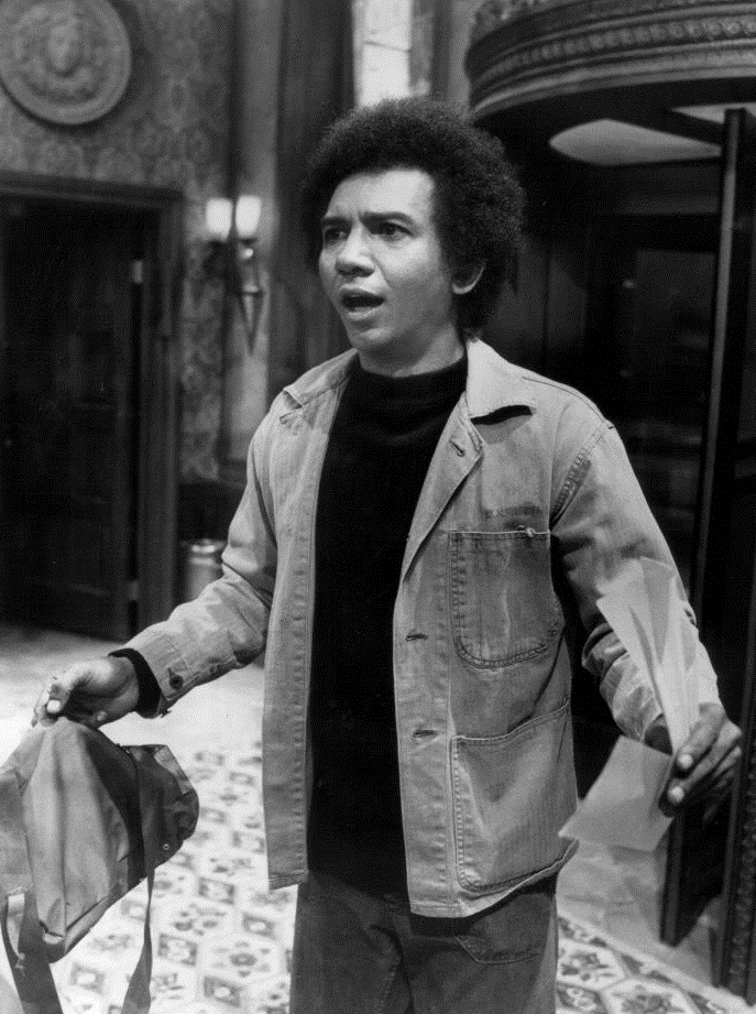 Al Freeman, Jr. in Hot L Baltimore in 1975